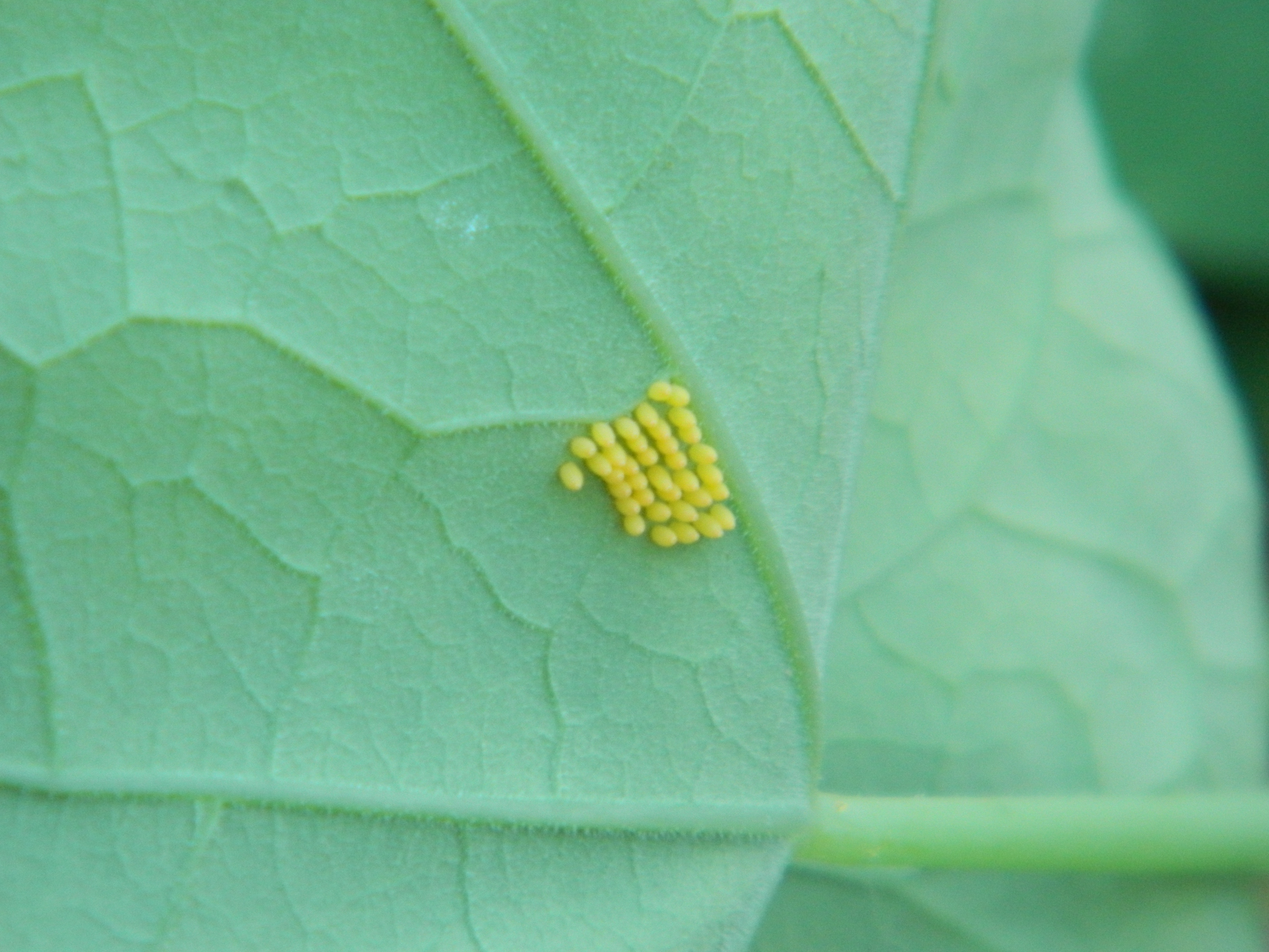 Large White Eggs on underside of Nasturtium leaf